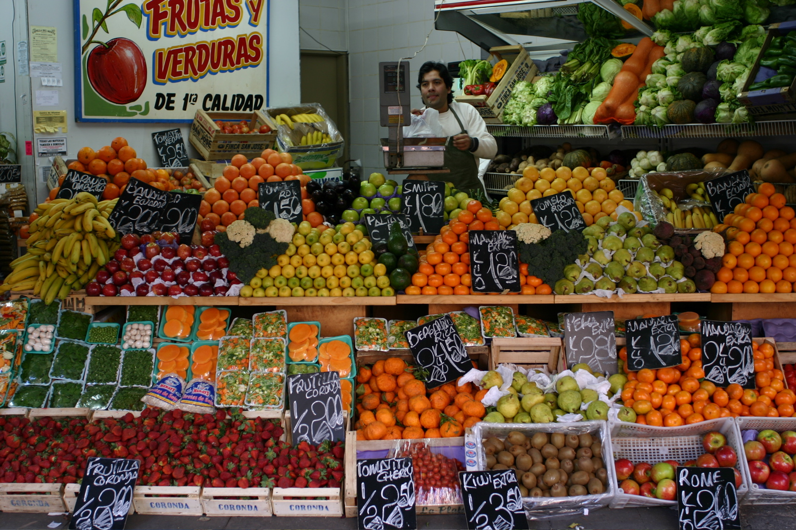 Corner produce store, Buenos Aires.